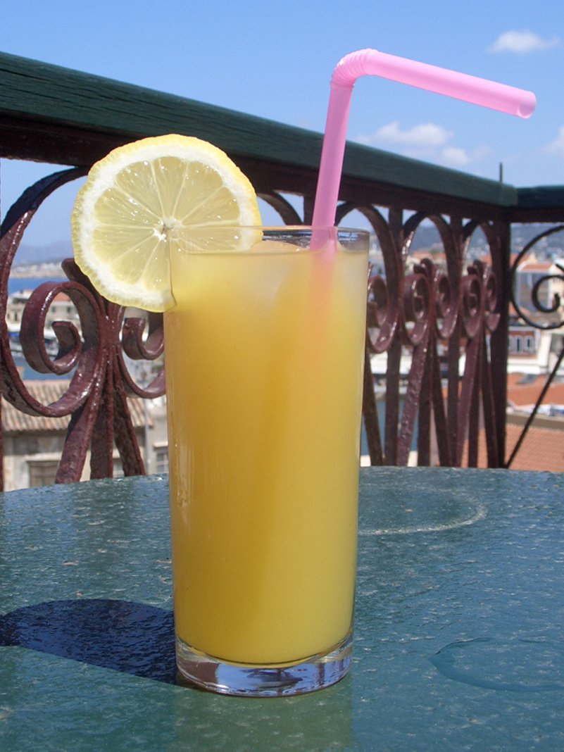 A drink with a straw